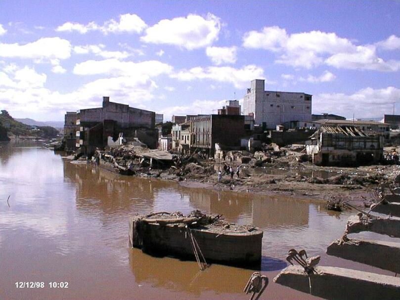 This image shows damaged in Tegucigalpa, Honduras caused by Hurricane Mitch in October of 1998.